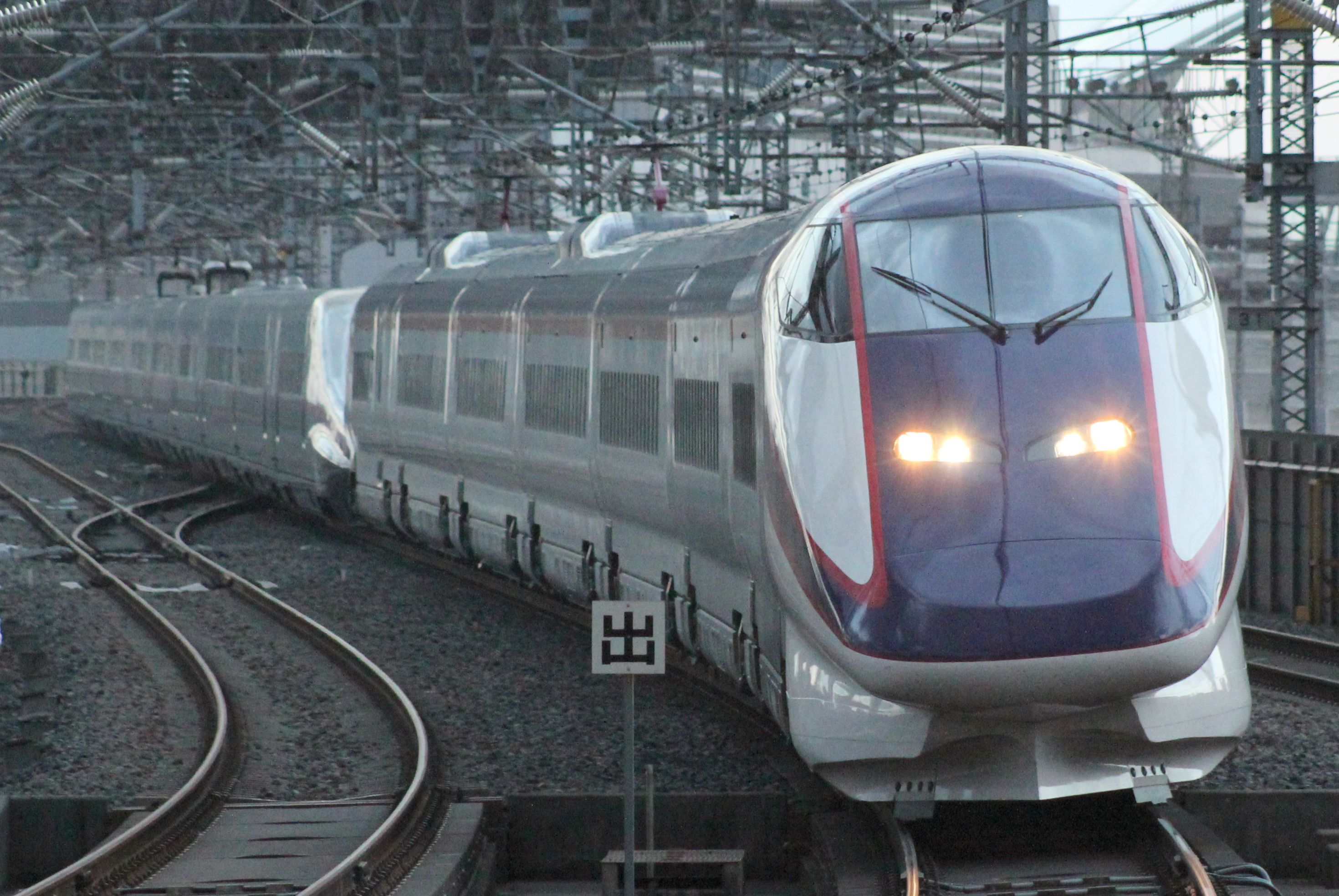 Reliveried JR East E3-2000 series shinkansen set L64 approaching Omiya Station at the head of a combined down Yamabiko/Tsubasa service together with an E2 series set